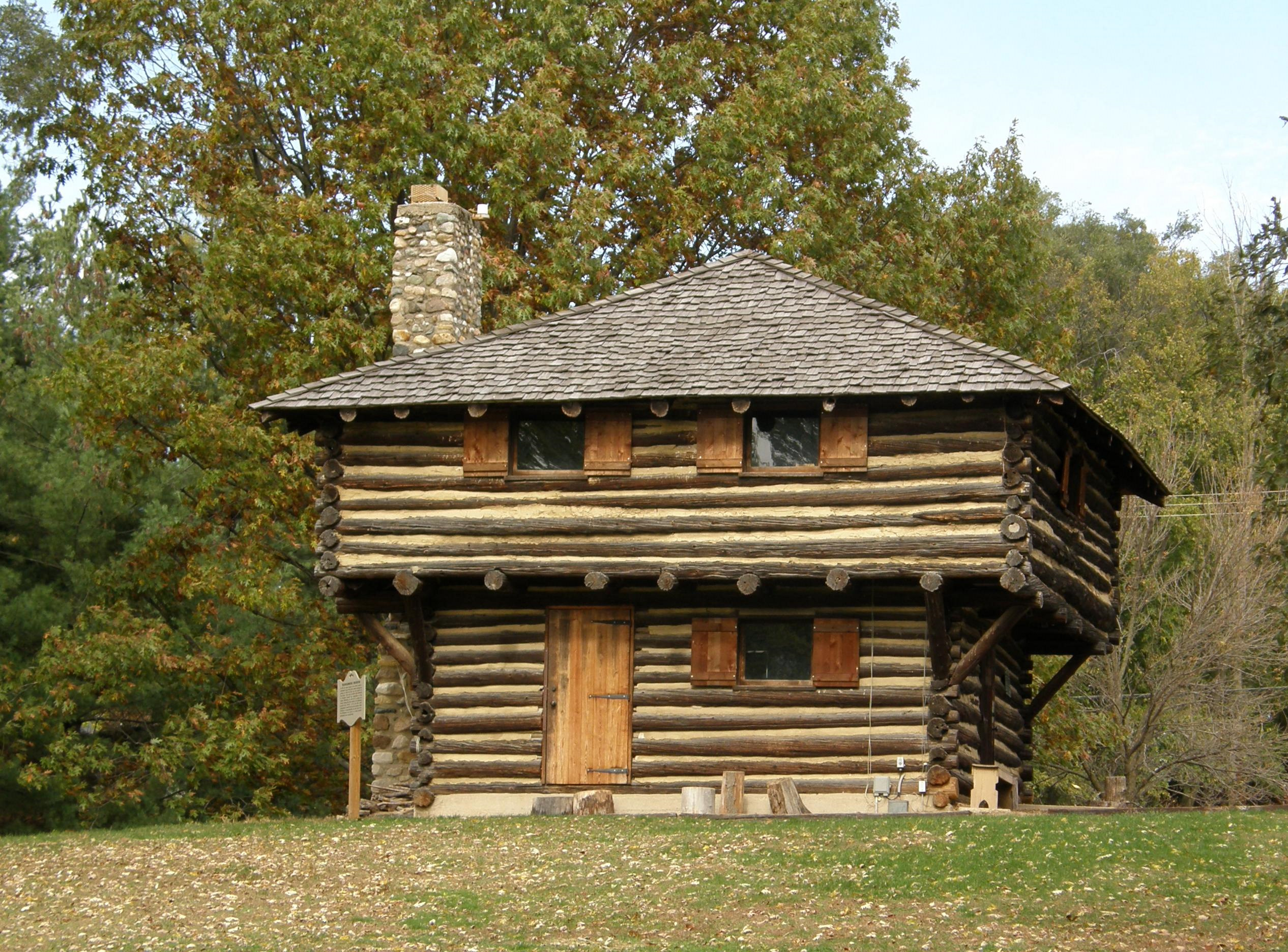 The blockhouse at Fort Ouiatenon in Tippecanoe County, Indiana, United States.